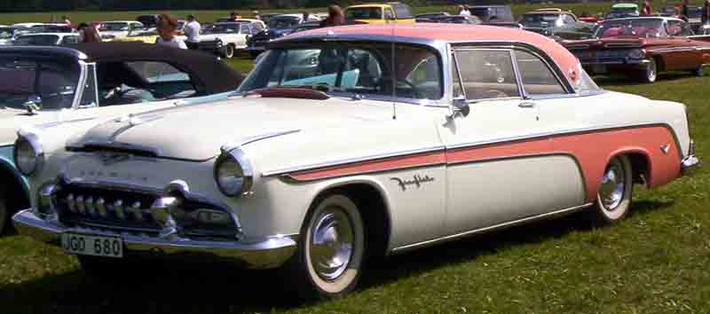 De Soto Fireflite Sportsman 1955